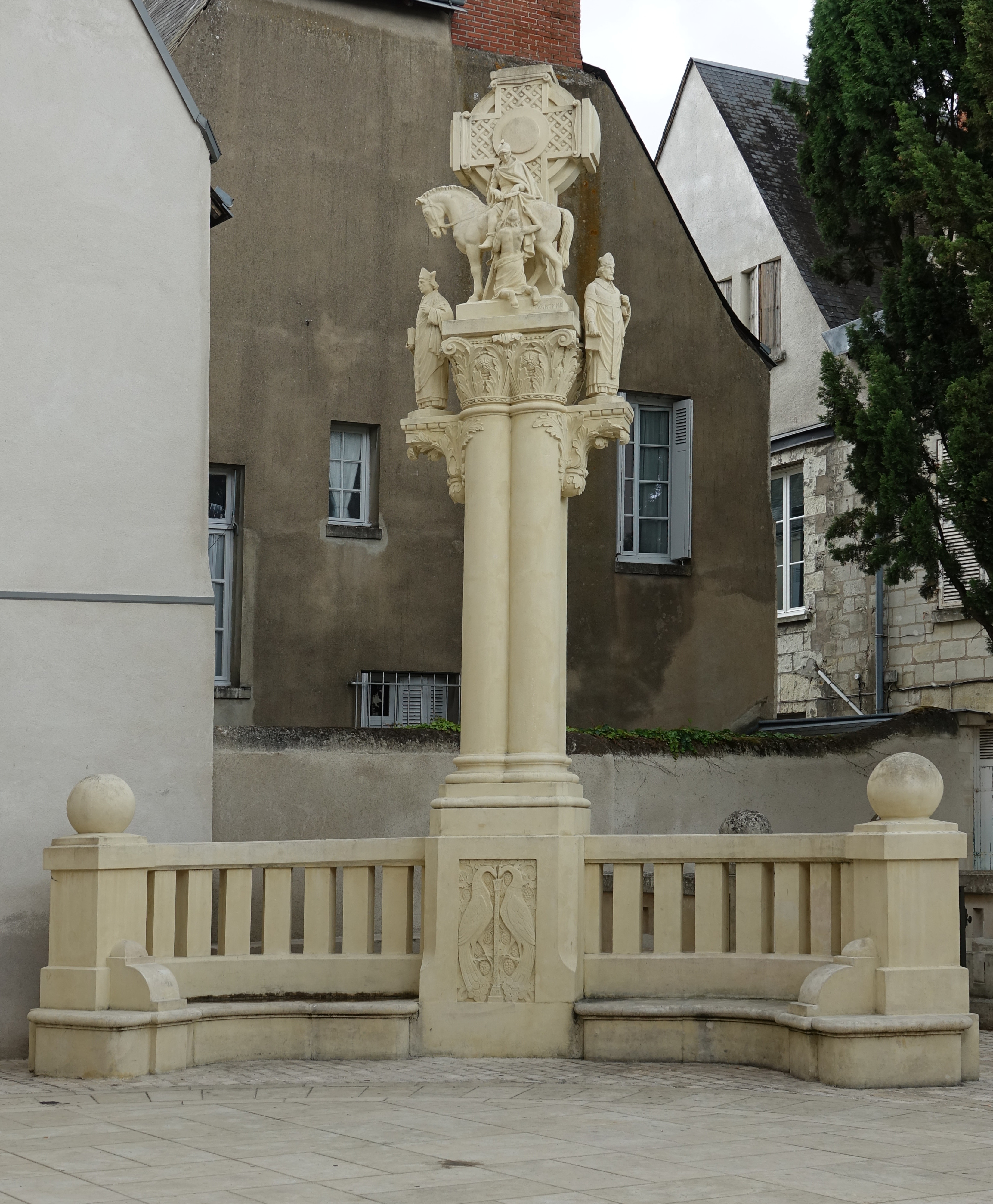 La charité de saint Martin (1927-1929) by Henri Frédéric Varenne in front of basilica Saint-Martin in Tours (Indre-et-Loire, France).